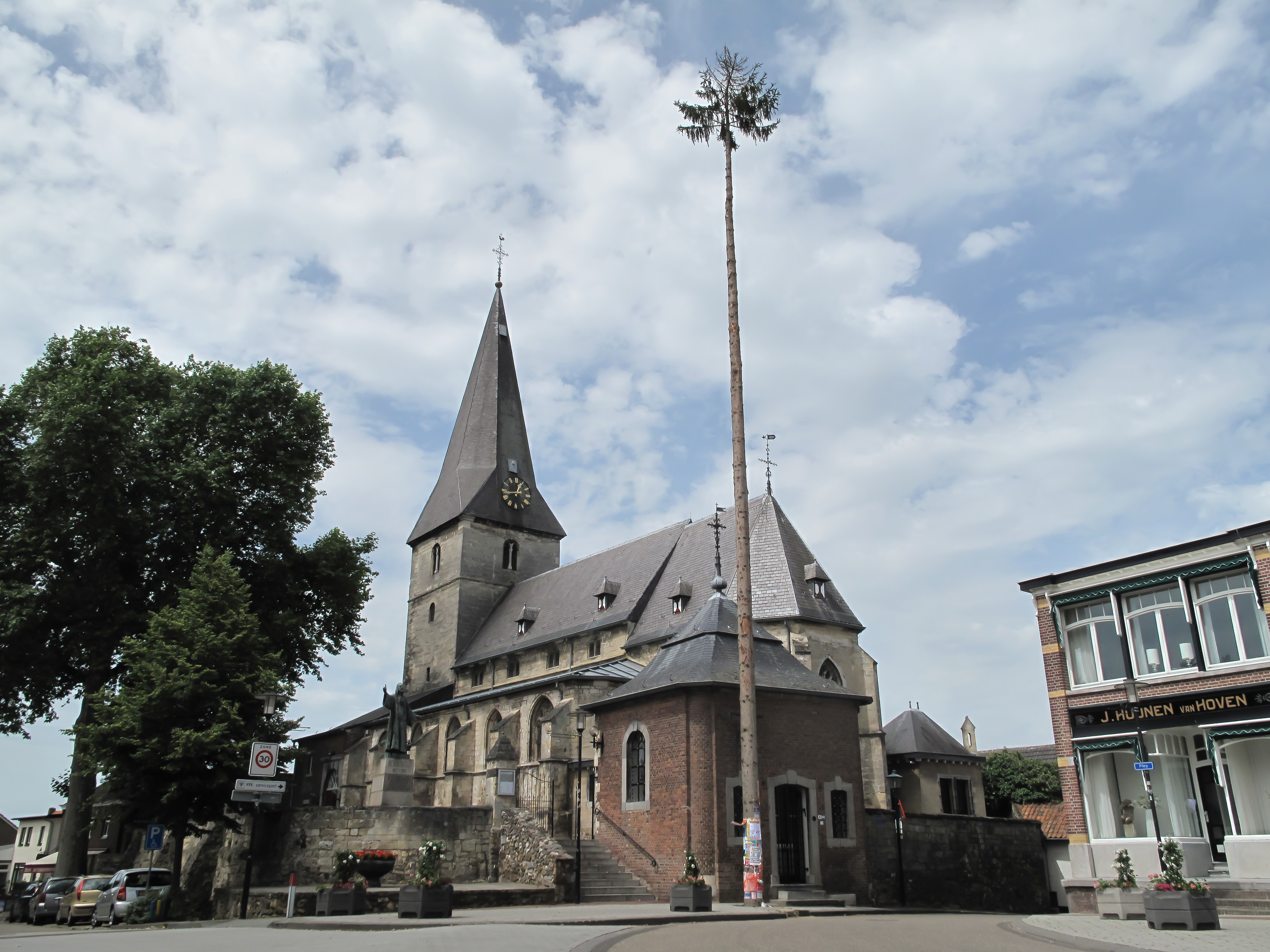 Noorbeek, church: de Sint Brigidakerk RM34794